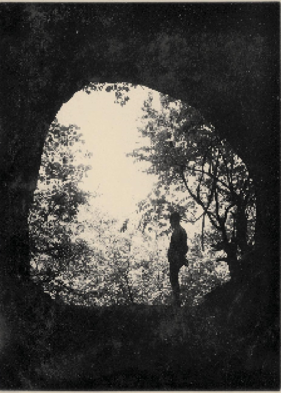 Farkas-kő Cave in Hungary.